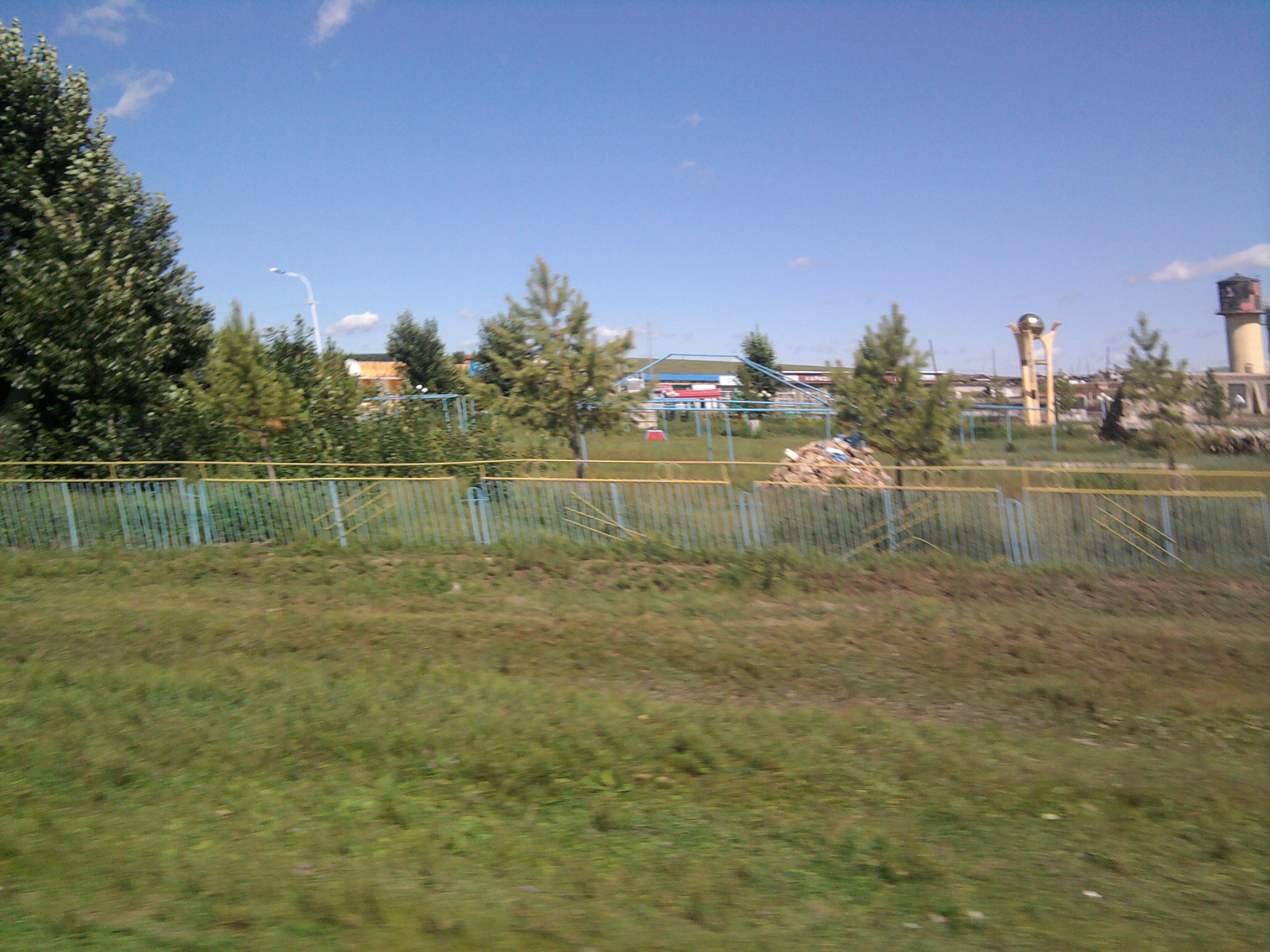 Garden in once populated Khongor soum with once fertile land